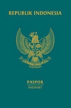 The latest version of Indonesian ordinary passport.